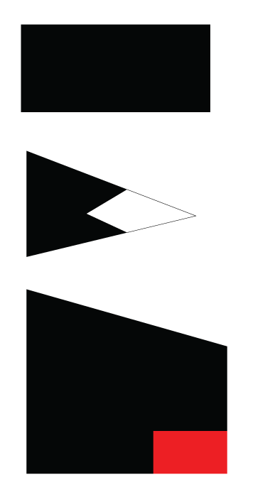 Based on David Nicolle "Armies of the Muslim Conquest" illustrations by Angus McBride. And Martin Hinds "The Banners and Battle Cries of the Arabs at Siffin" Al-Abhath XXIV